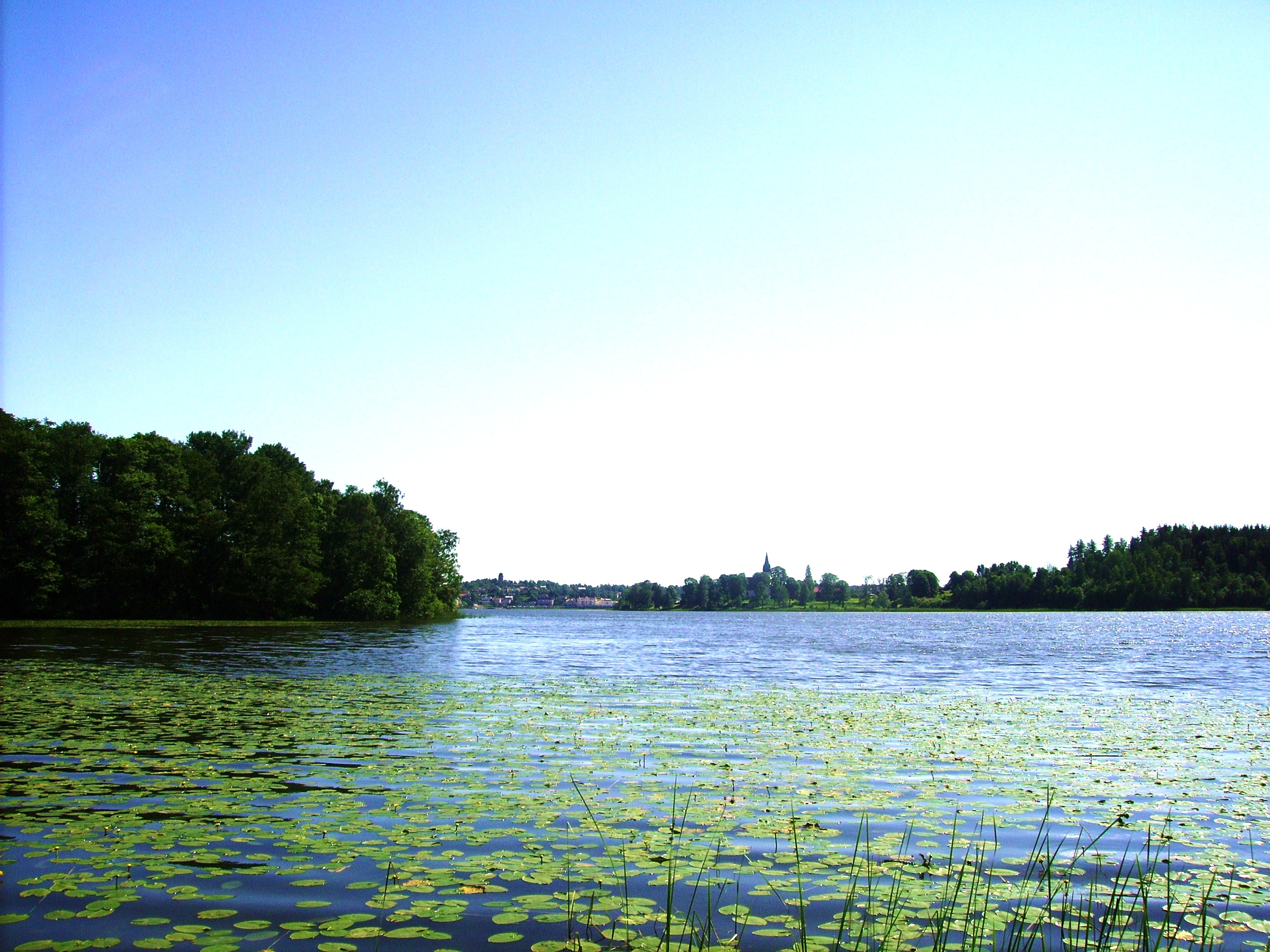 Picture of Frösjön lake in Södermanland